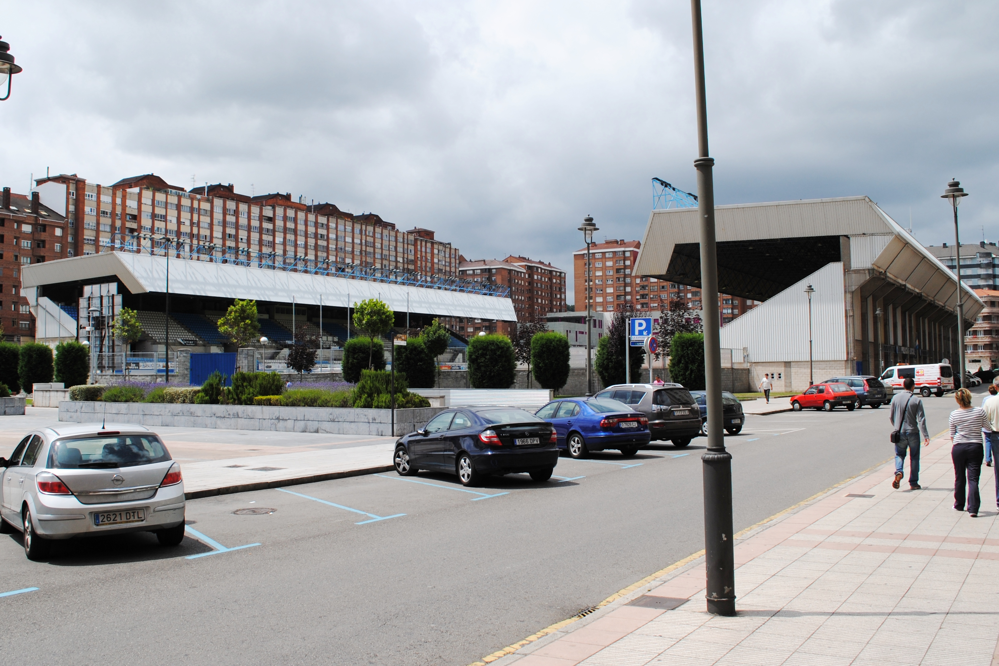 See title.